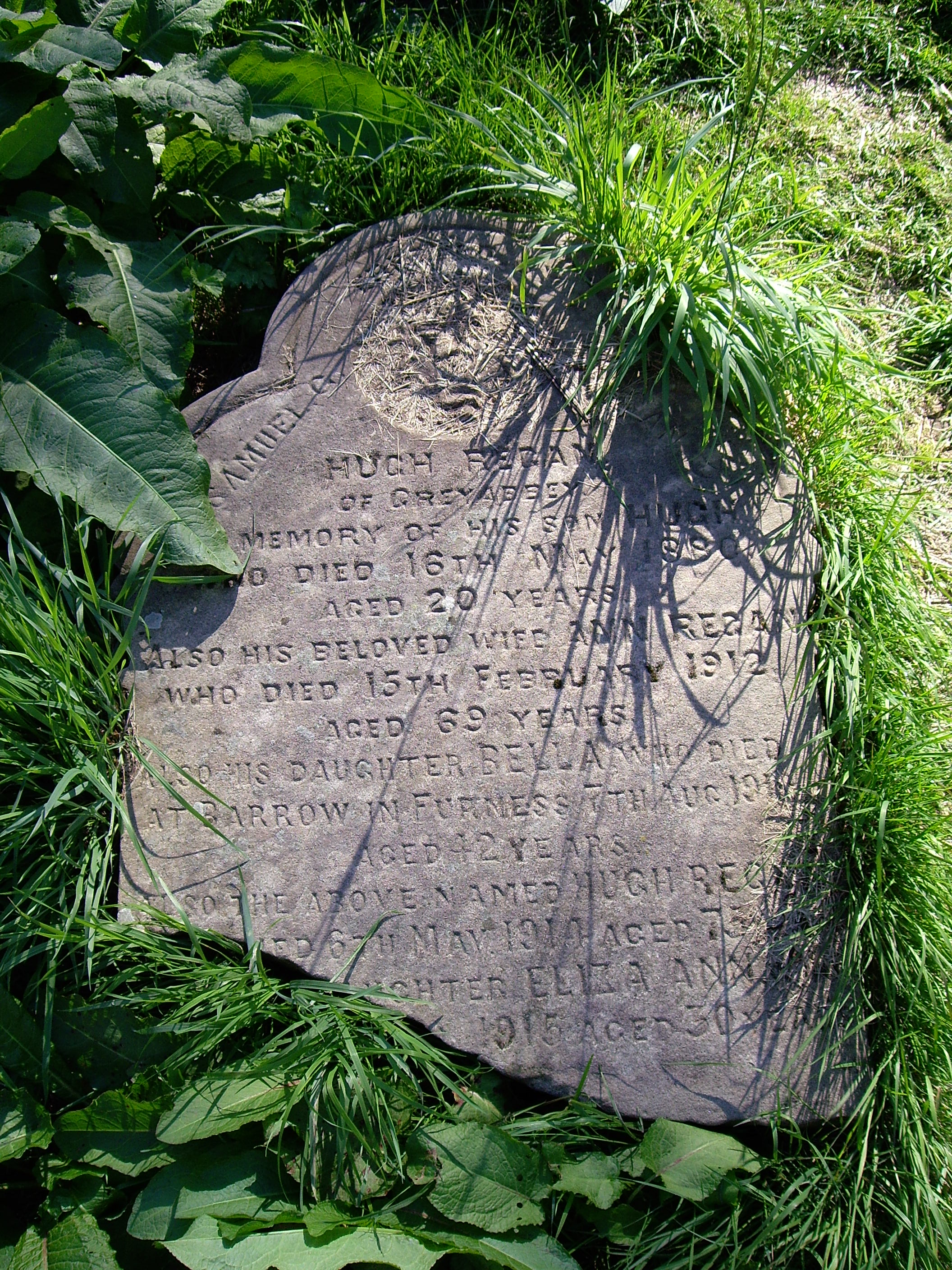 Grey Abbey Graveyard